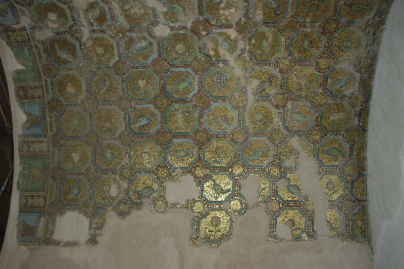 Mosaic medallions in Saint George Rotunda (Thessaloniki). J. Matthew Harrington, pesonal digital image.